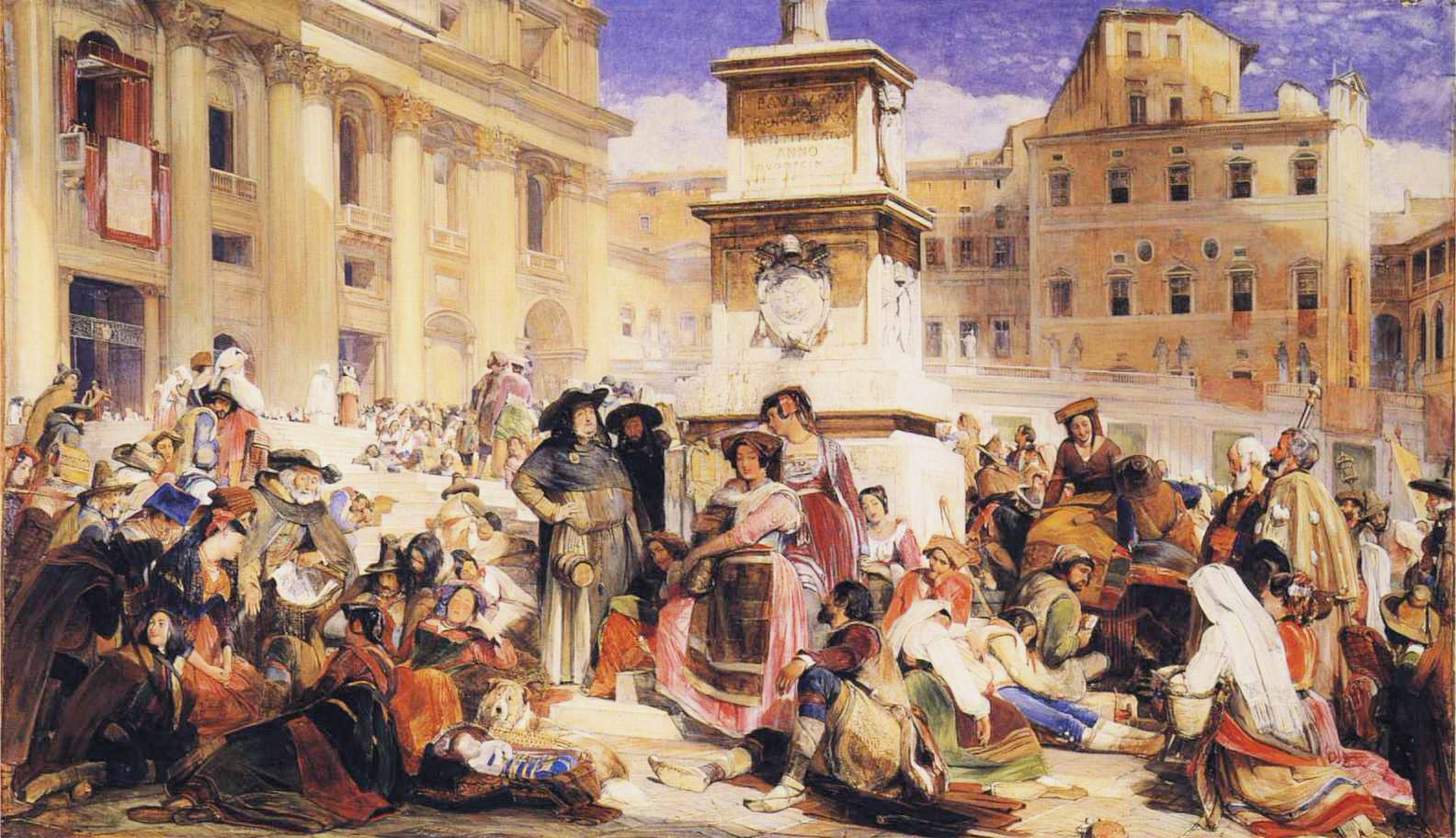 Dimensions and material of painting: Watercolor, 30 x 53 in.